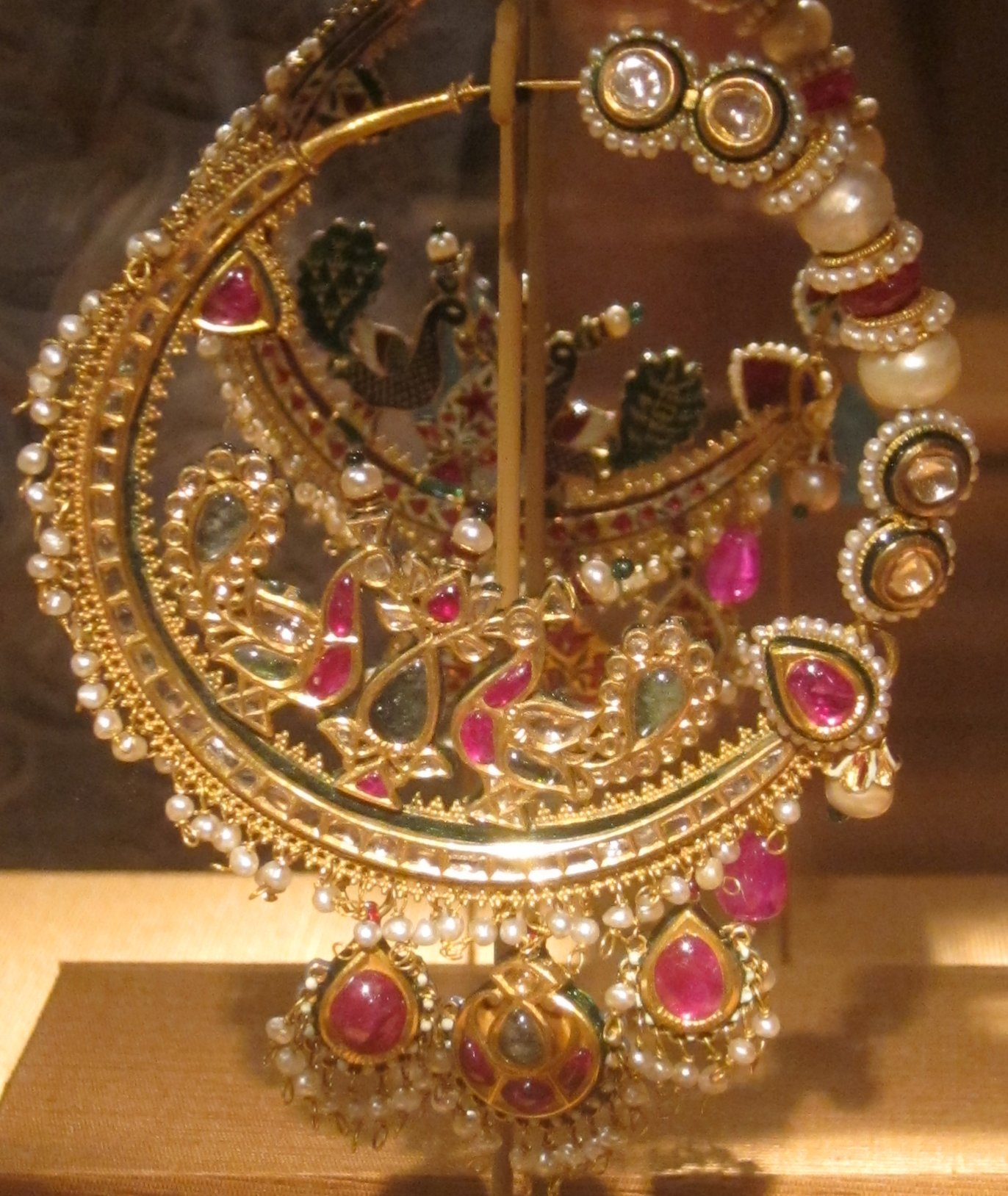 Nose ring, northern India, early 20th century, gold, rubies, emeralds, diamonds, pearls and enamel, on long-term loat to the Honolulu Academy of Arts